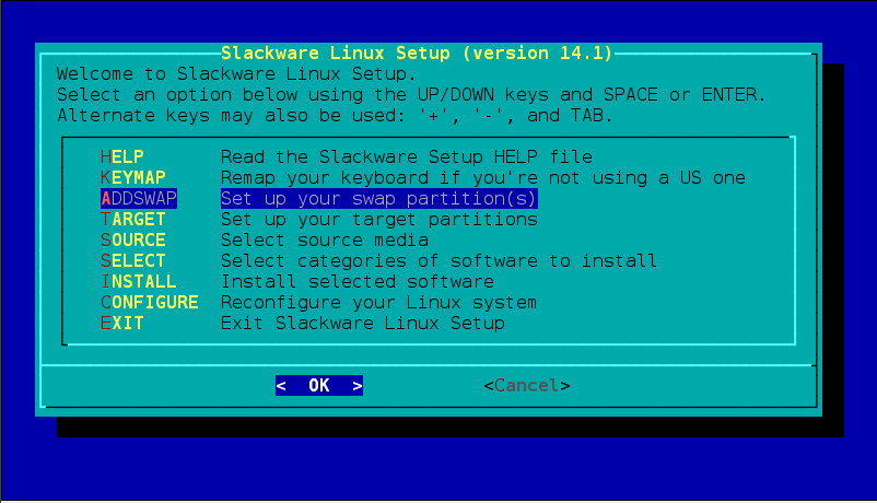 Screenshot of the Slackware 14.1 installer's setup tool